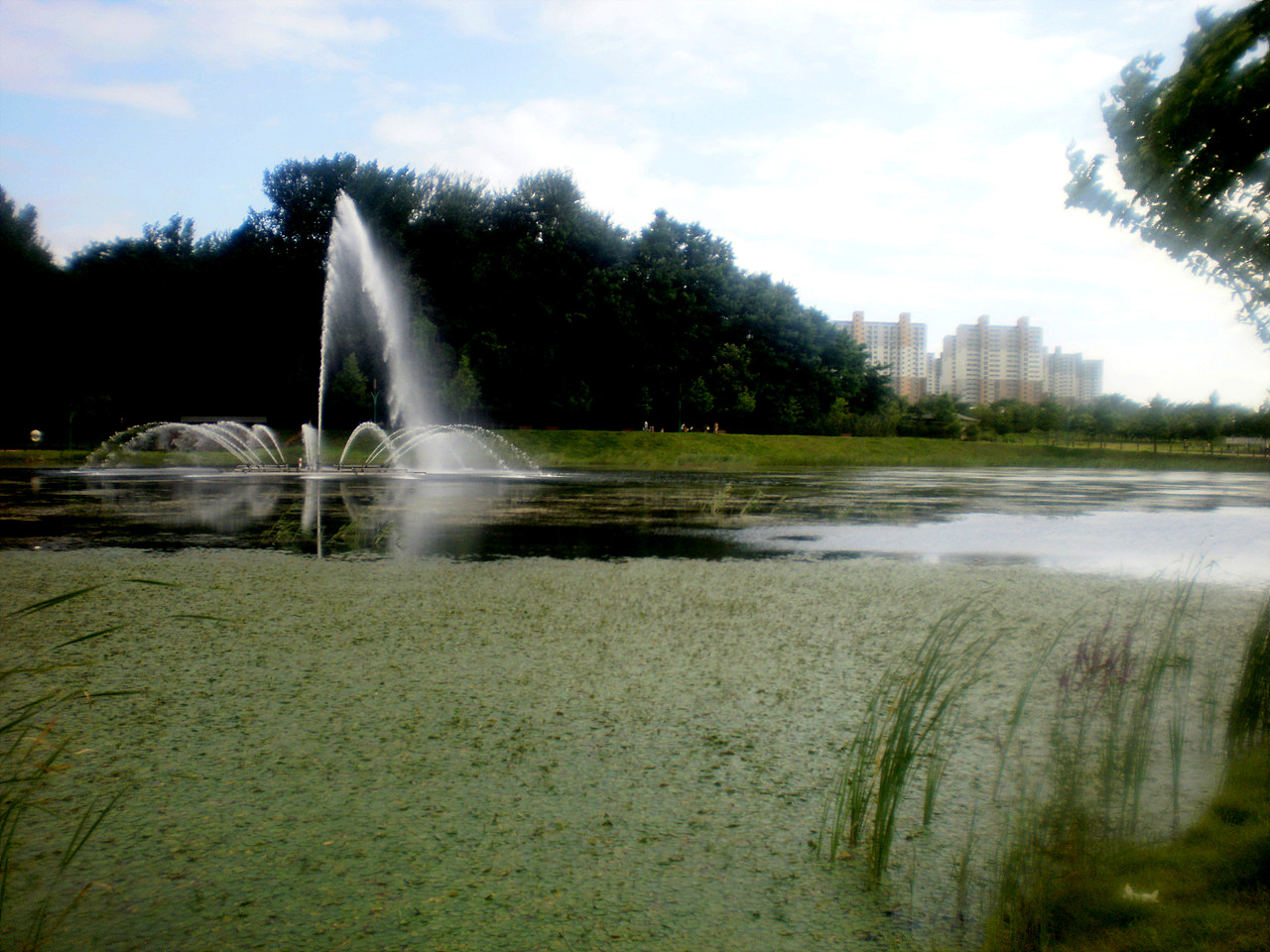 Hosu park. (Gojan-dong, Danwon-gu, Ansan-si, Gyeonggi-do, South Korea.)